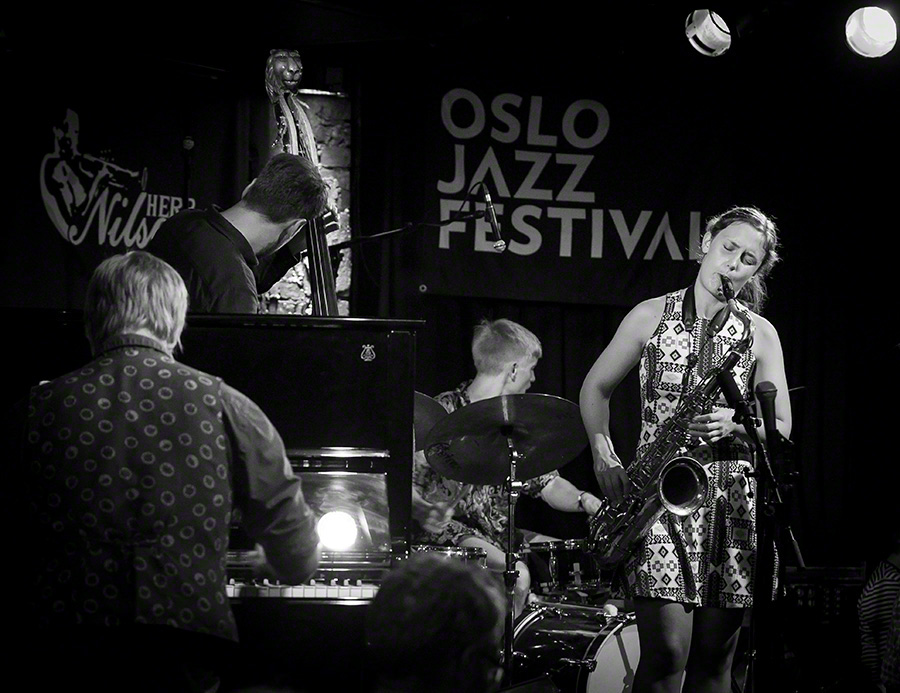 Hanna Paulsberg Concept at the stage of Herr Nilsen. The concert was part of the Oslo Jazz Festival in Norway and took place on 20. August 2016. Lineup: Hanna Paulsberg (saxophone) Knut Riisnæs (saxophone) Oscar Grönberg (piano) Trygve Waldemar (double bass) Hans Hulbækmo (drums)